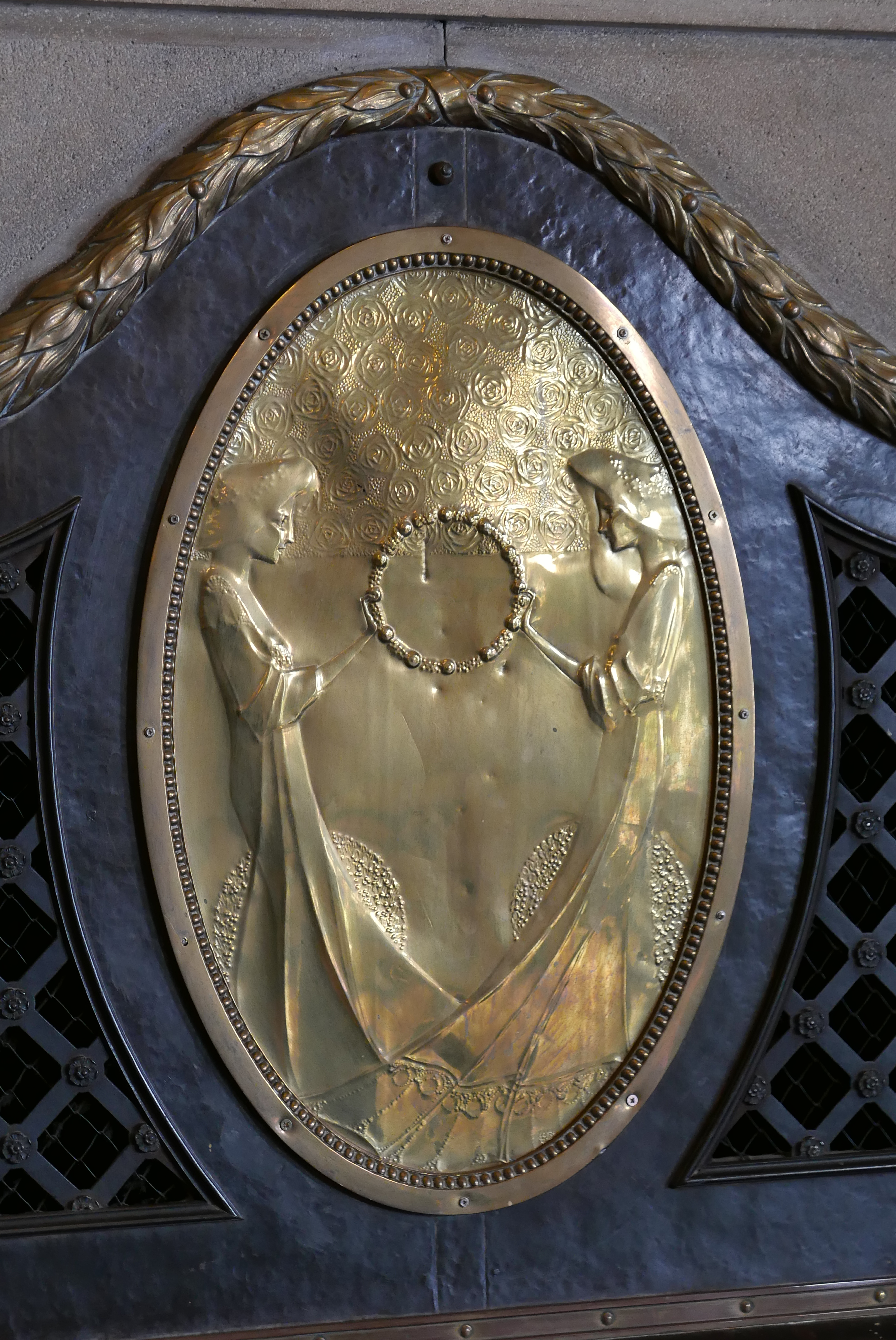 Georg Klimt's (1867 Wien - 1931 Wien) bas-relief in the lobby of the Pod Orłem hotel in Bielsko-Biała